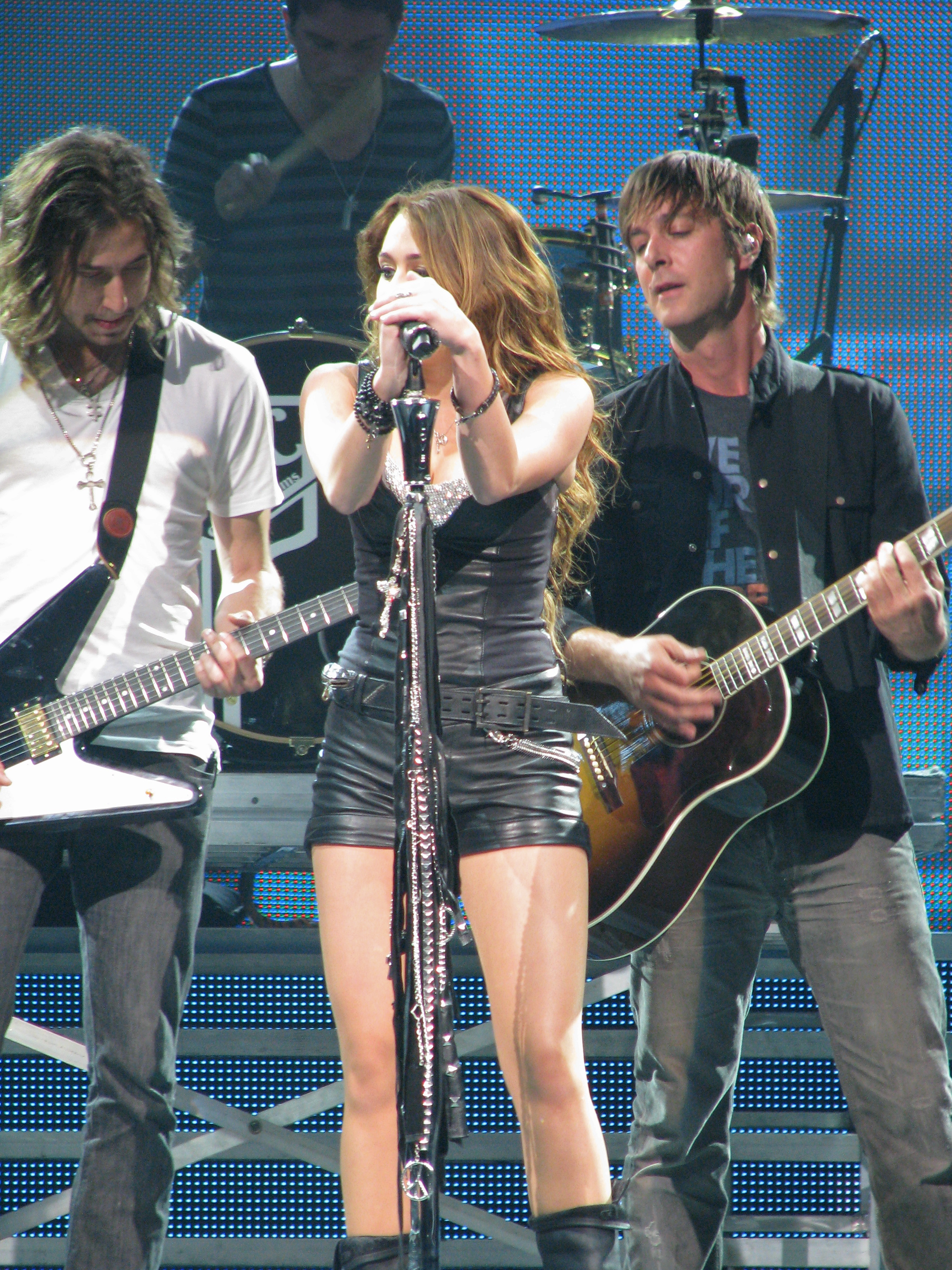 A teen singing.